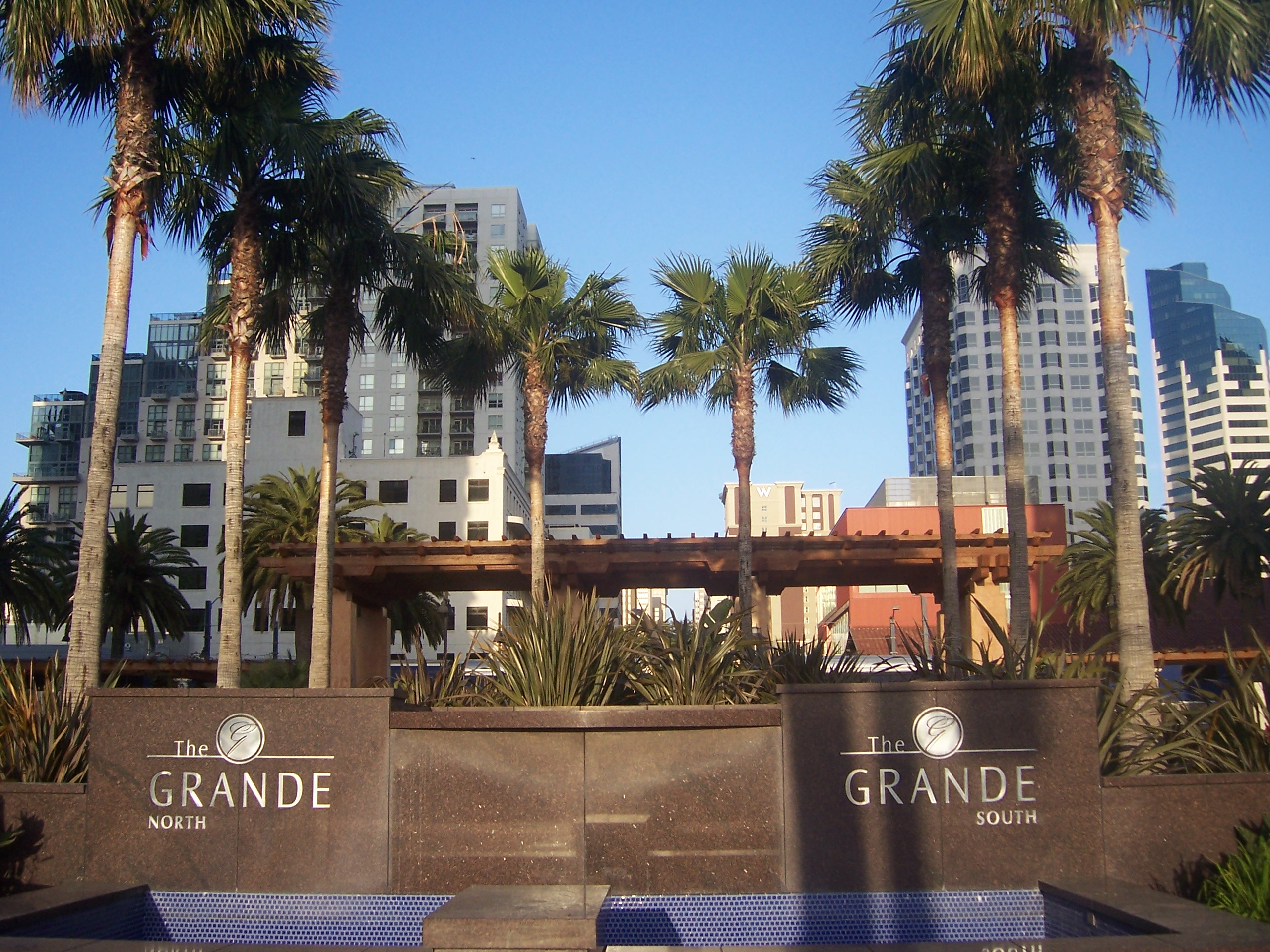 Taken at the entrance to the two towers.